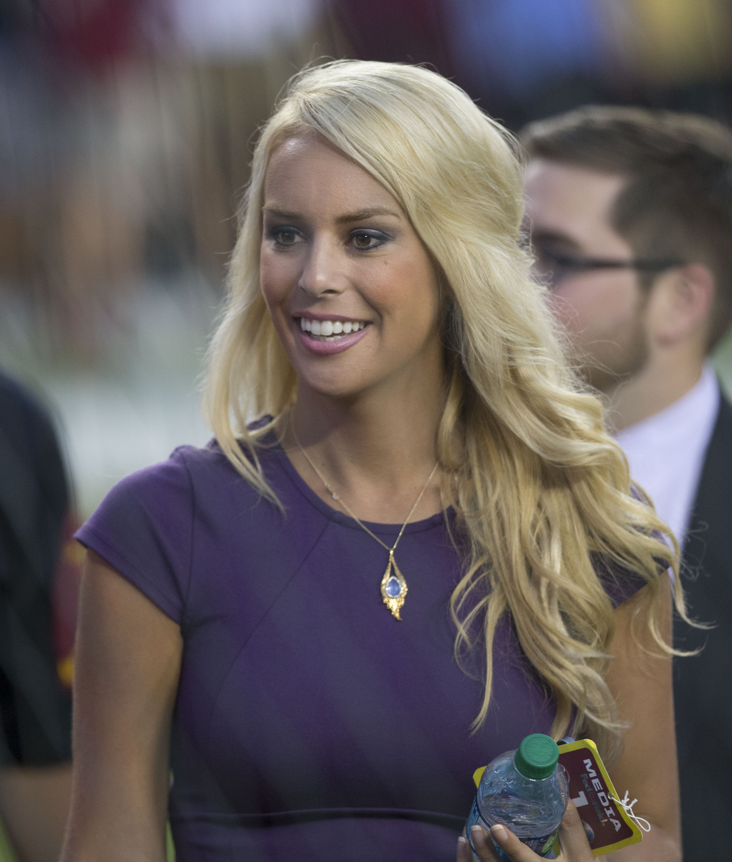 Britt McHenry pregame August 2015.